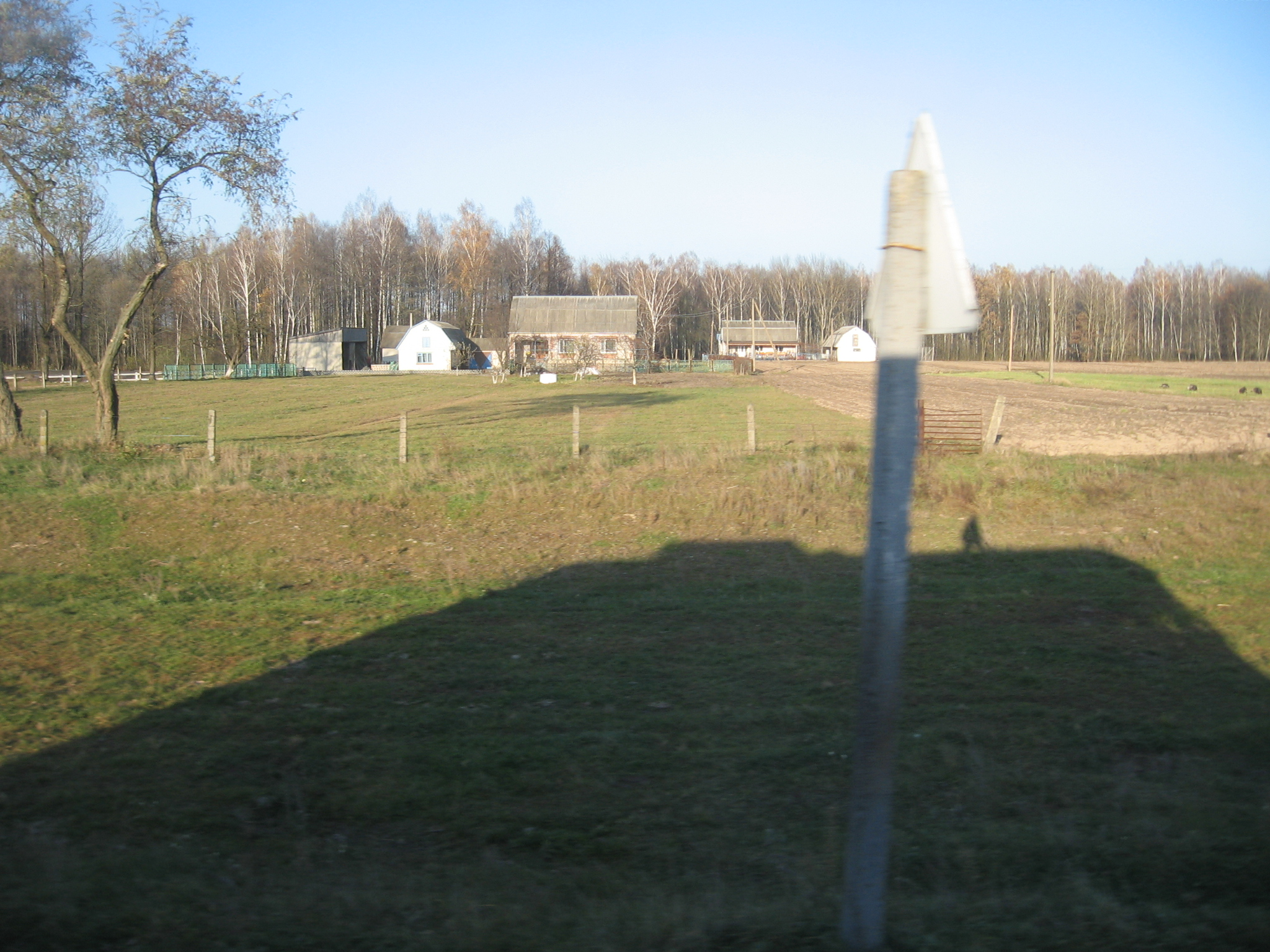 View of Kurhantsi, Zhytomyr Oblast, Ukraine